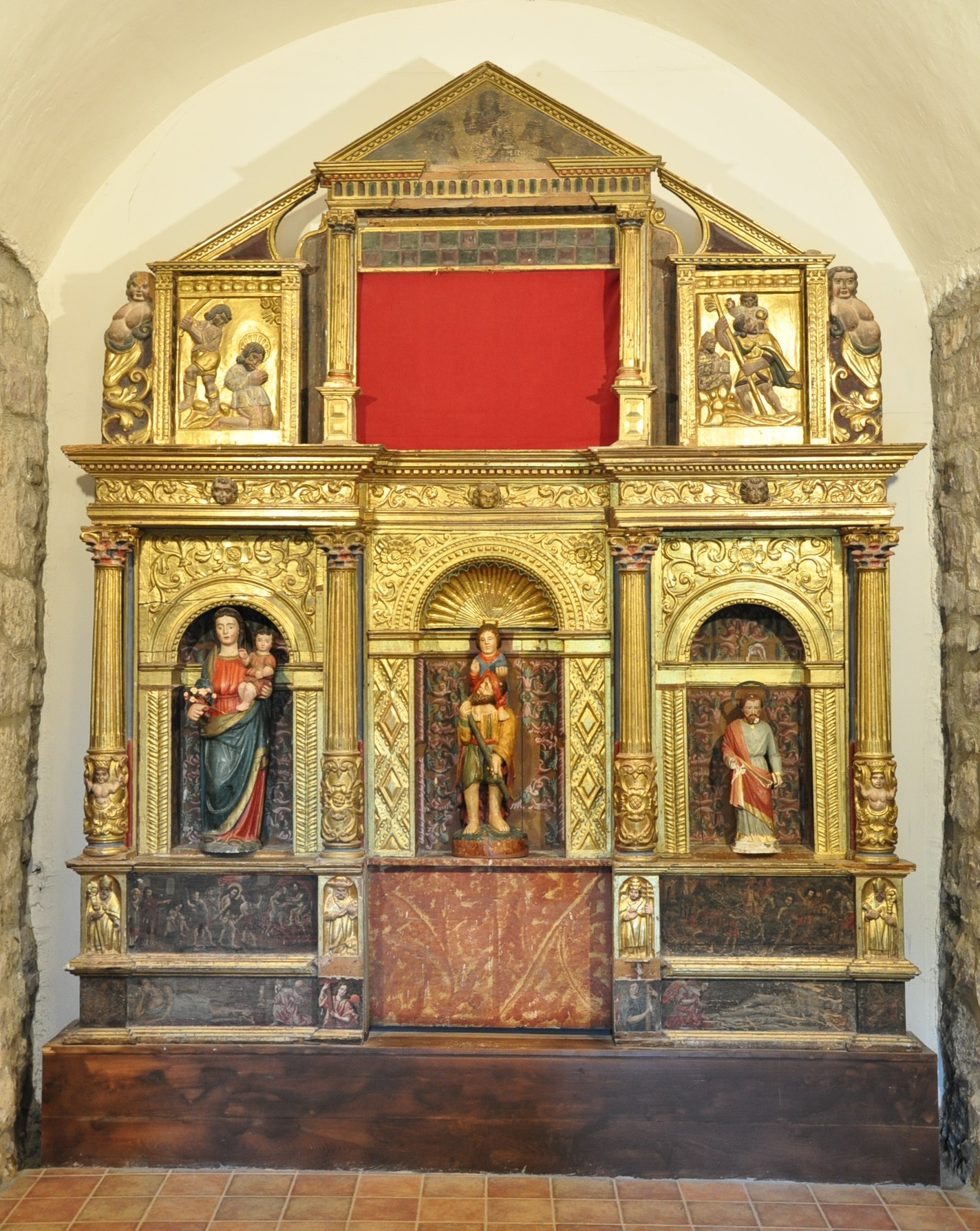 Altarpiece (17th century) of Saint Christopher, from the church of Sirès (municipality of Bonansa, Ribagorza district, Aragon, northern Spain). Exhibited in the "Museu d'Art Sacre de la Ribagorça" (Museum of Holy/Religious Art of the Ribagorça), located in the old parish church of El Pont de Suert (Alta Ribagorça district, Catalonia, northern Spain).